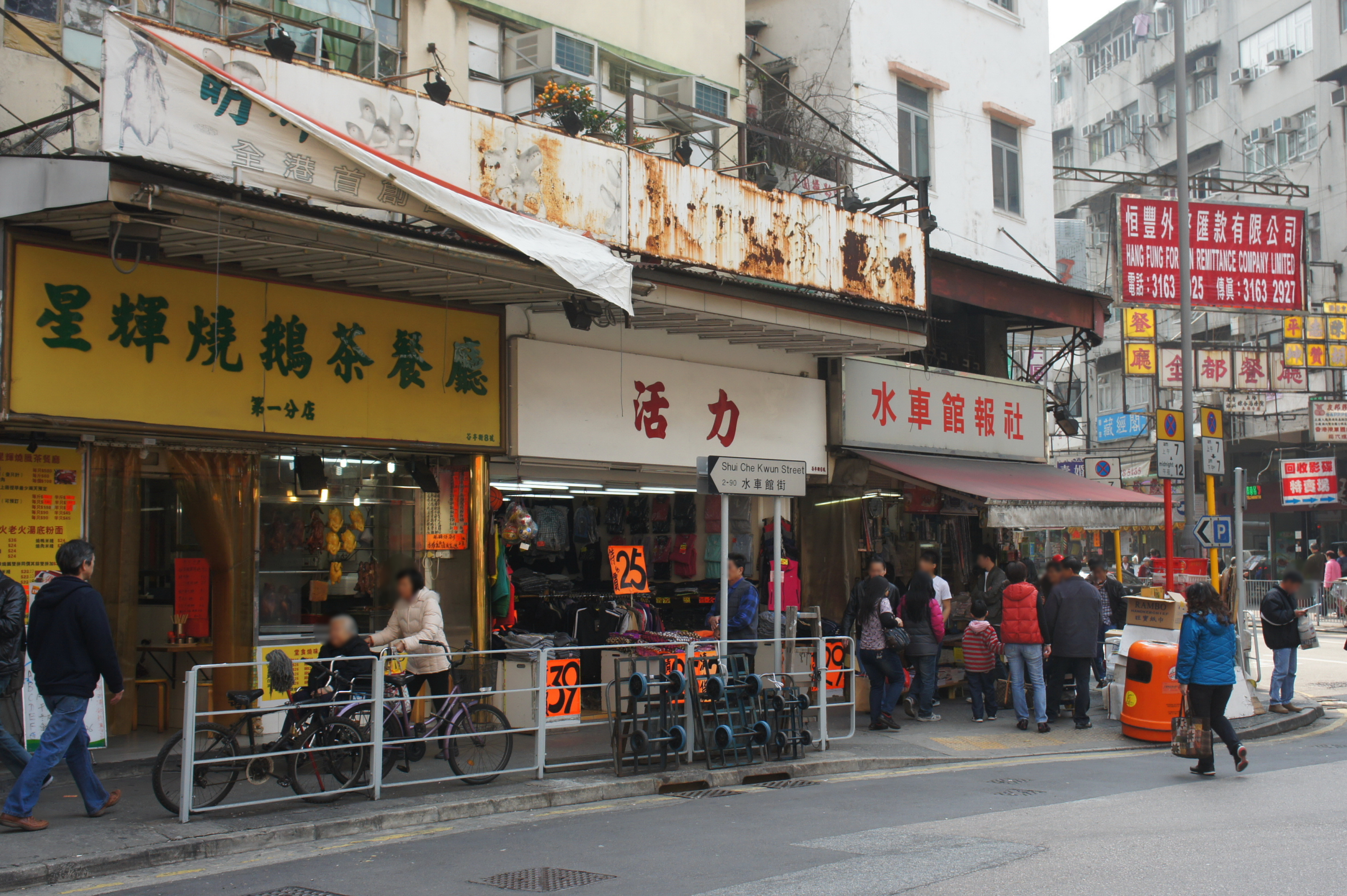 Shui Che Kwun Street, Yuen Long, Hong Kong. Kuk Ting Street is on the right.